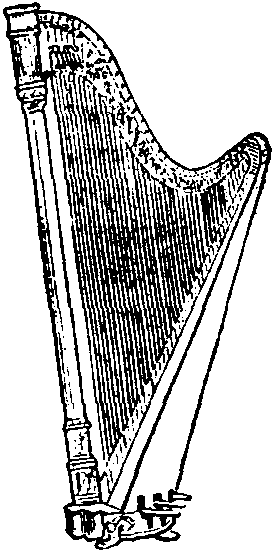 Drawing of a harp made by Sébastien Érard.